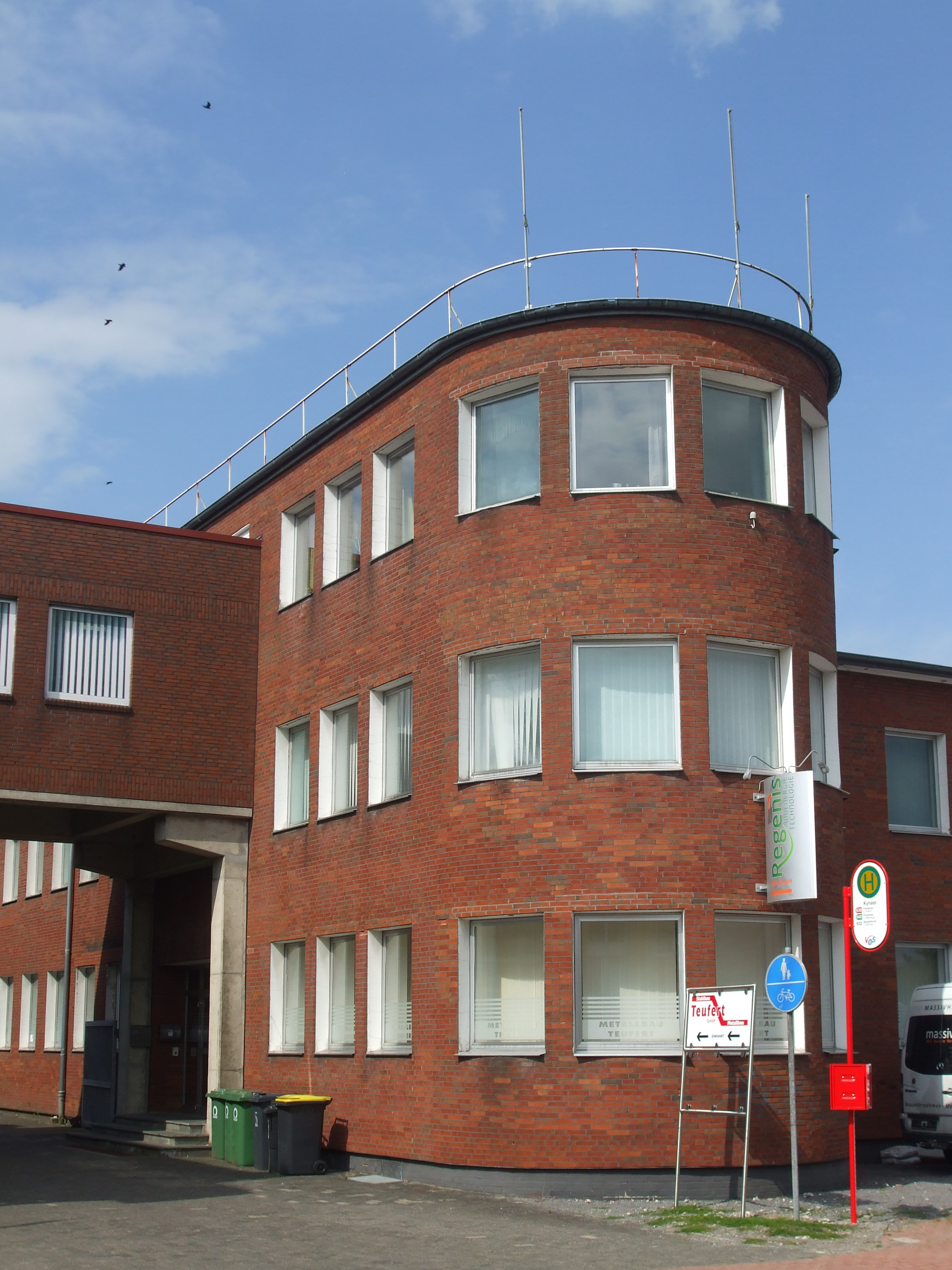 The former air traffic control tower and the adjacent northern area of the former Luftwaffe airfield at Quakenbrück is used today by the company Rebotec.